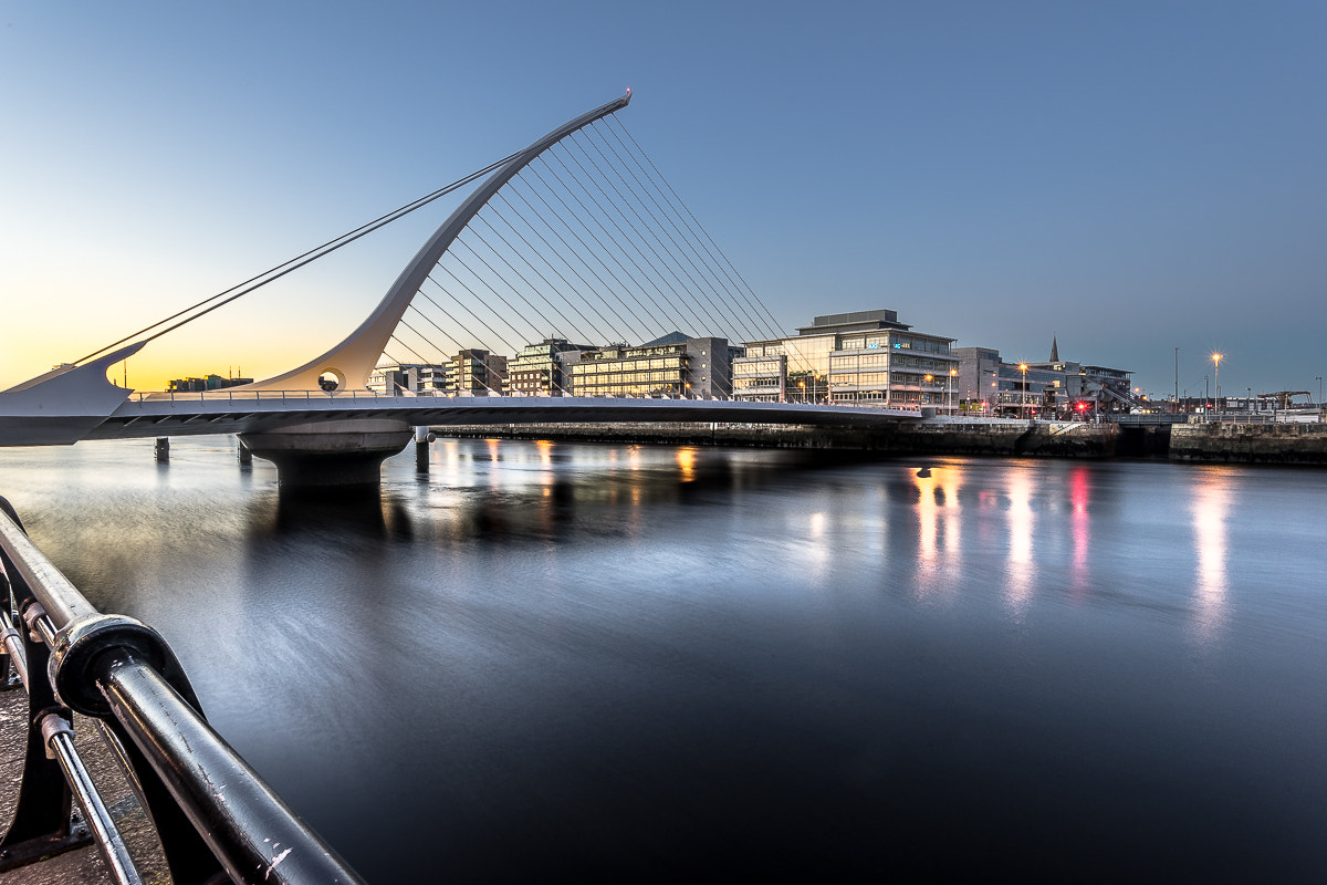 500px provided description: This is a free picture released under Creative Commons Attribution 2.0 Generic. Feel free to use and share this picture but please give me credit linking my website or my Flickr account. More info about me on If you like my pictures please like my Facebook page ( or follow me on Twitter ( and Instagram ( Thanks! [#sky ,#landscape ,#city ,#sunset ,#reflection ,#river ,#travel ,#blue ,#buildings ,#clouds ,#europe ,#urban ,#architecture ,#cityscape ,#lights ,#bridge ,#photo ,#minolta ,#sony ,#konica ,#long exposure ,#photography ,#ireland ,#dublin ,#liffey ,#quays ,#beckett ,#samuel becket bridge ,#sony a7 ,#konica minolta 17-35]